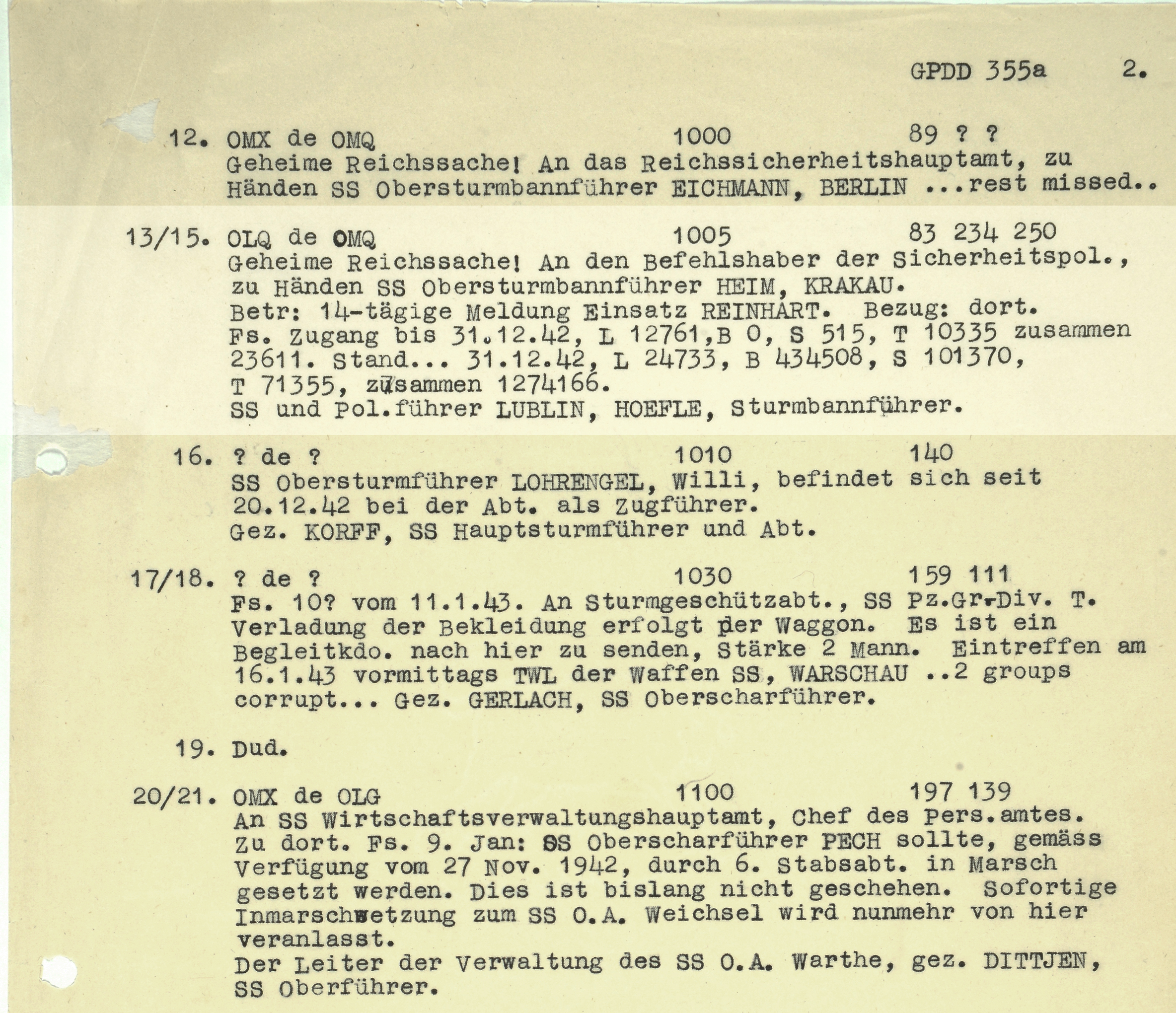 Extract of a larger coded telegram reporting on movements of Jews to death and concentration camps (catalogue reference HW 16/23) Verbatim German language texts issued as BP daily reports: all messages in GP Code No 3, including all intercepted messages in this code to/from concentration camps; Translated transcript 13/15 OLQ de OMQ 1005 83 234 250 State secret! To the commander of the Security Police, for the attention of SS Obersturmbannfuhrer HEIM, KRAKAU. Re: 14-day report operation REINHARD. Reference: radio telegram from there Recorded arrivals until December 42, L 12761, B 0, S 515, T 10335, totalling 23611. Situation 31 December 42, L 24733, B 434508, S 101370, T 71355, totalling 1274166. SS and police leader of Lublin, HOFLE, Sturmbannfuhrer